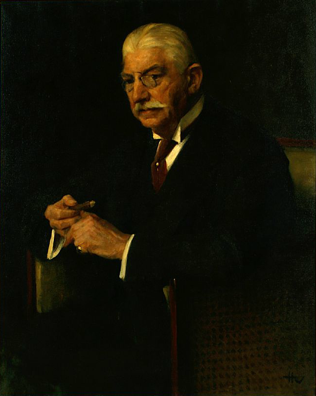 Carl Gammeltoft, Danish businessman